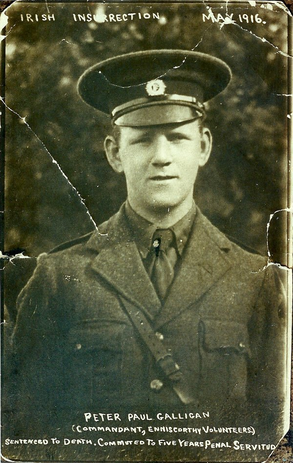 Photograph of Peter Paul Galligan, Irish Volunteer and later Sinn Féin TD, May 1916